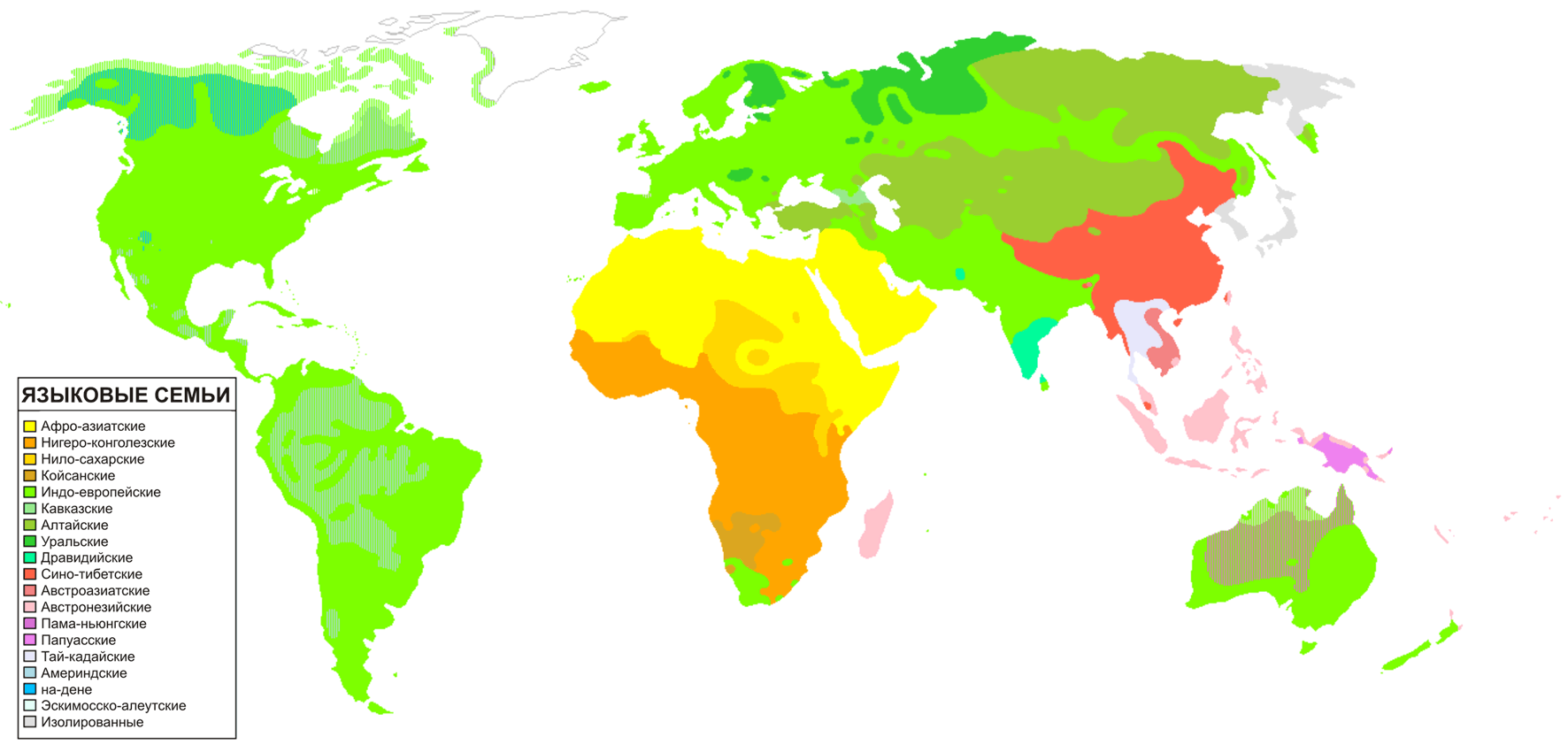 Human Language Families of Earth